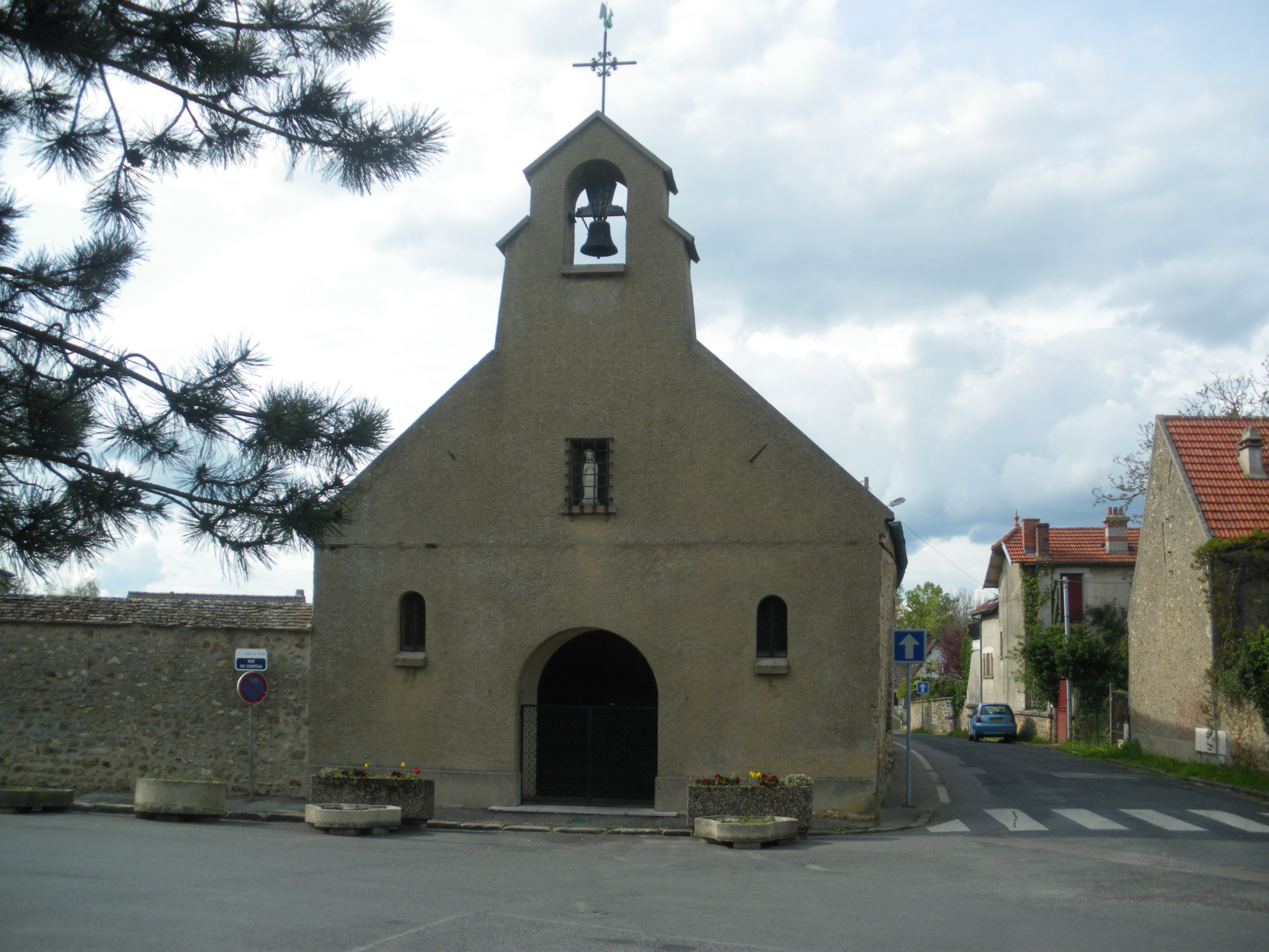 Montjay chapel, Bures sur Yvette, Essonne, France